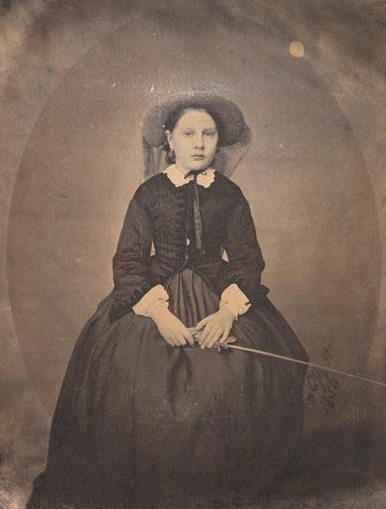 Portrait photograph of Antónia of Braganza, Infanta of Portugal, taken in 1856 by Wenceslau Cifka.